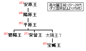 the geneology of Goguryeo( 23rd King ~ 28th King) / 高句麗王系図(23代～28代)